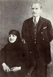 Mustafa Kemal (Atatürk) and Latife Uşaklıgil (Uşşaki). They were married between 1923 and 1925.